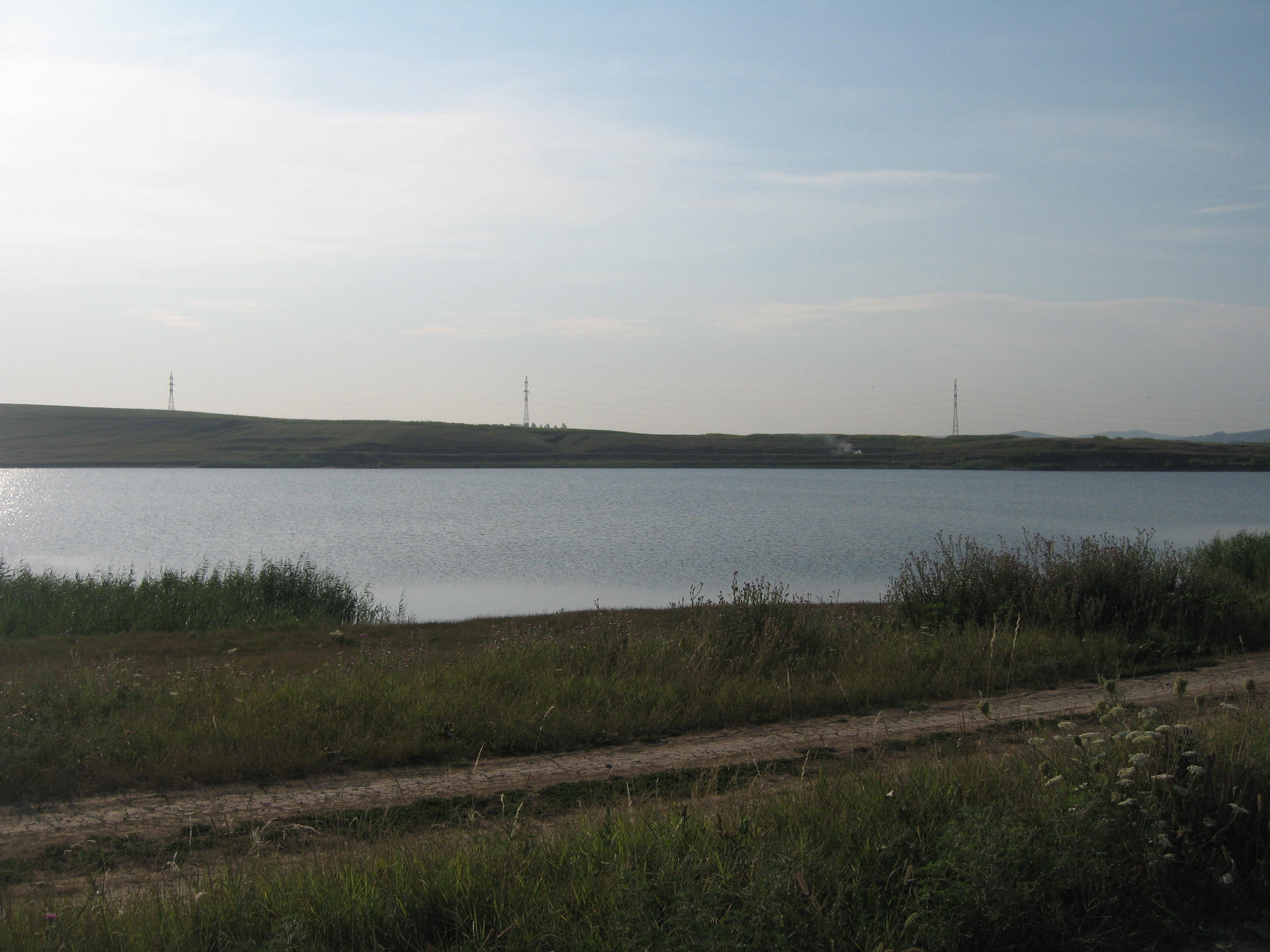 Barajul Chiriţa